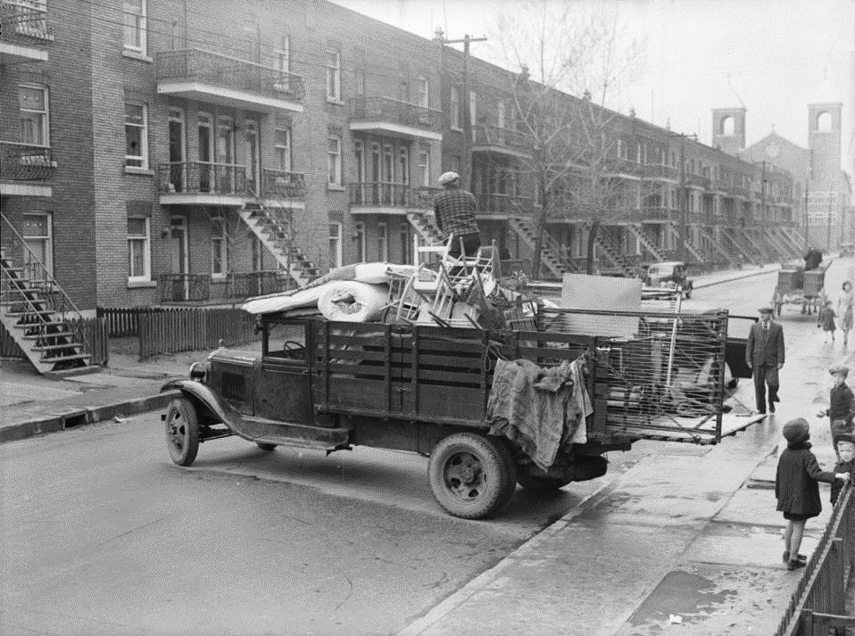 For documentary purposes the original description provided by BAnQ has been retained. Additional descriptive text may be added by Wikimedians with the wiki description = parameter, but please do not modify the other fields.